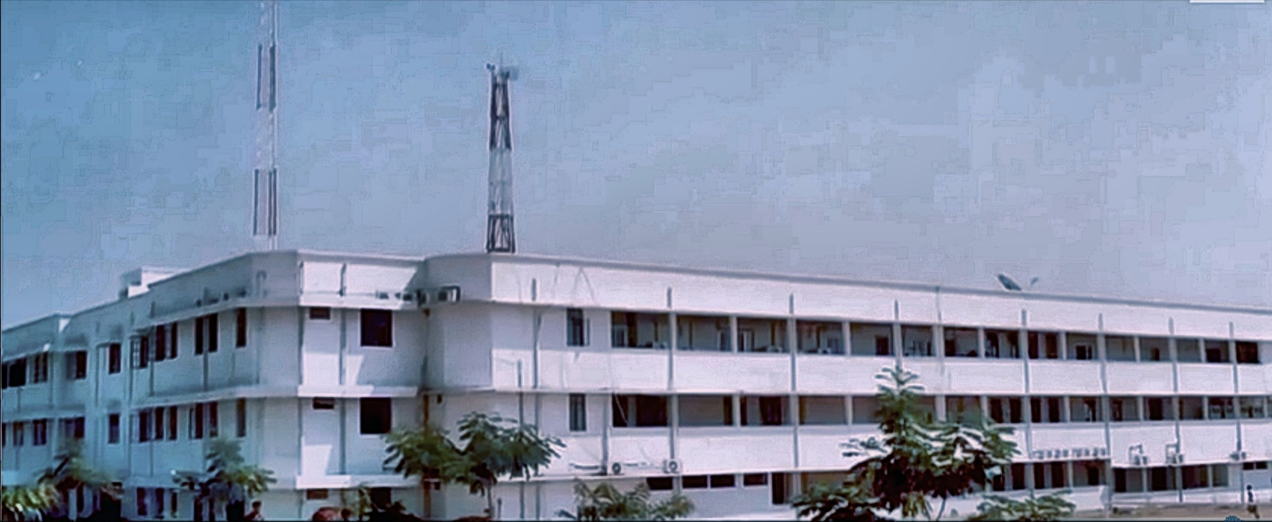 Academic Block of International Institute of Informational Technology Hyderabad